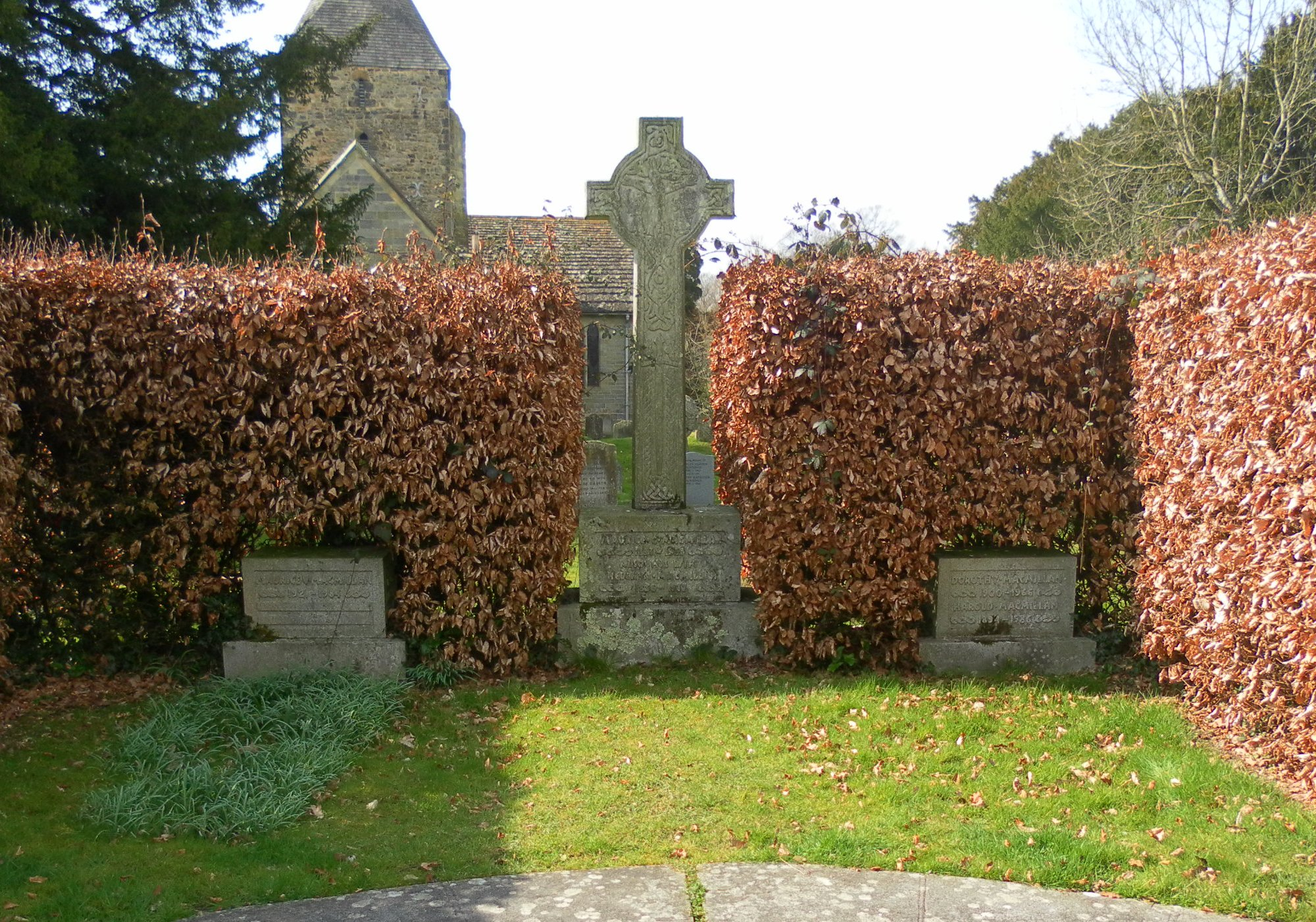 Macmillan family grave at St Giles' Church, Church Lane, Horsted Keynes, district of Mid Sussex, West Sussex, England. An Anglican church built in the 12th–13th century to serve this village in a rural part of Mid Sussex. Many members of the Macmillan family are born* here, including former Prime Minister Harold Macmillan. [* I think you mean buried here, Harold was said to be born in Cadogan Place London]